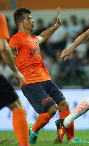 Emre Belözoğlu